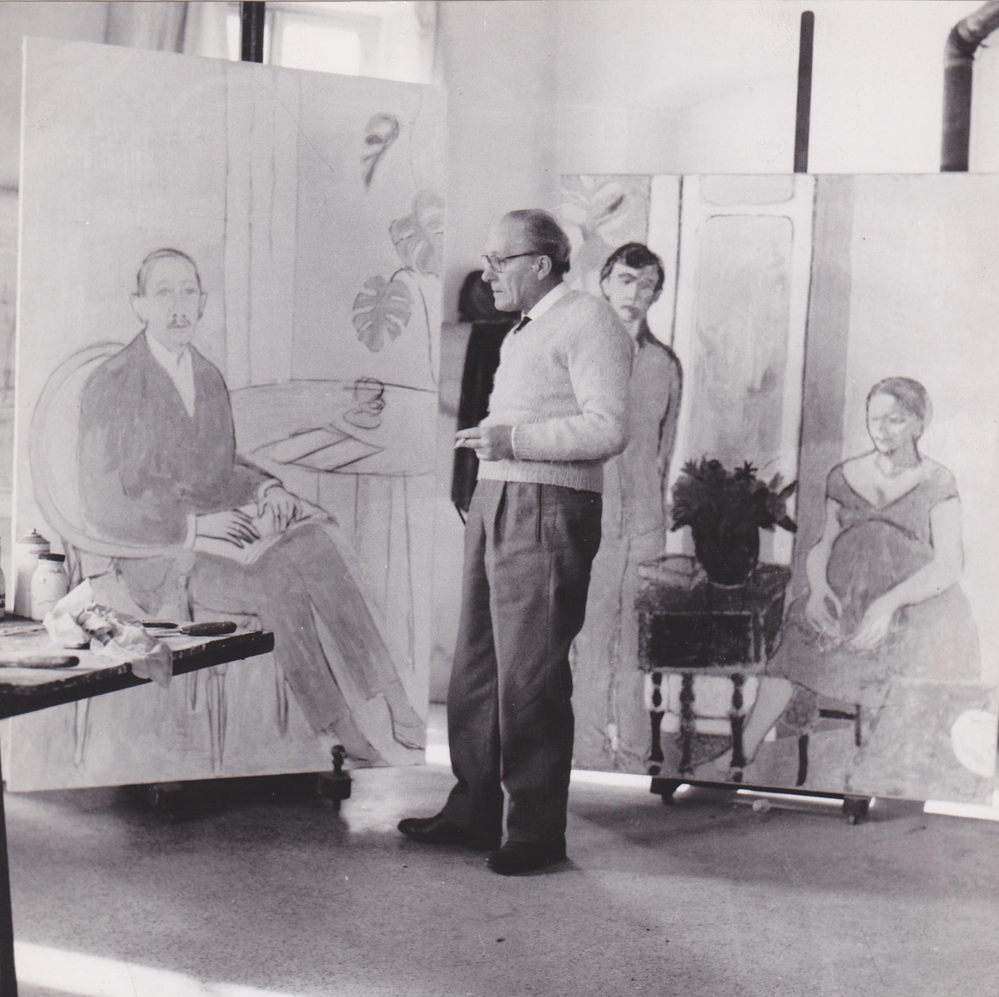 The author in the studio at the Accademia Albertina in Torino